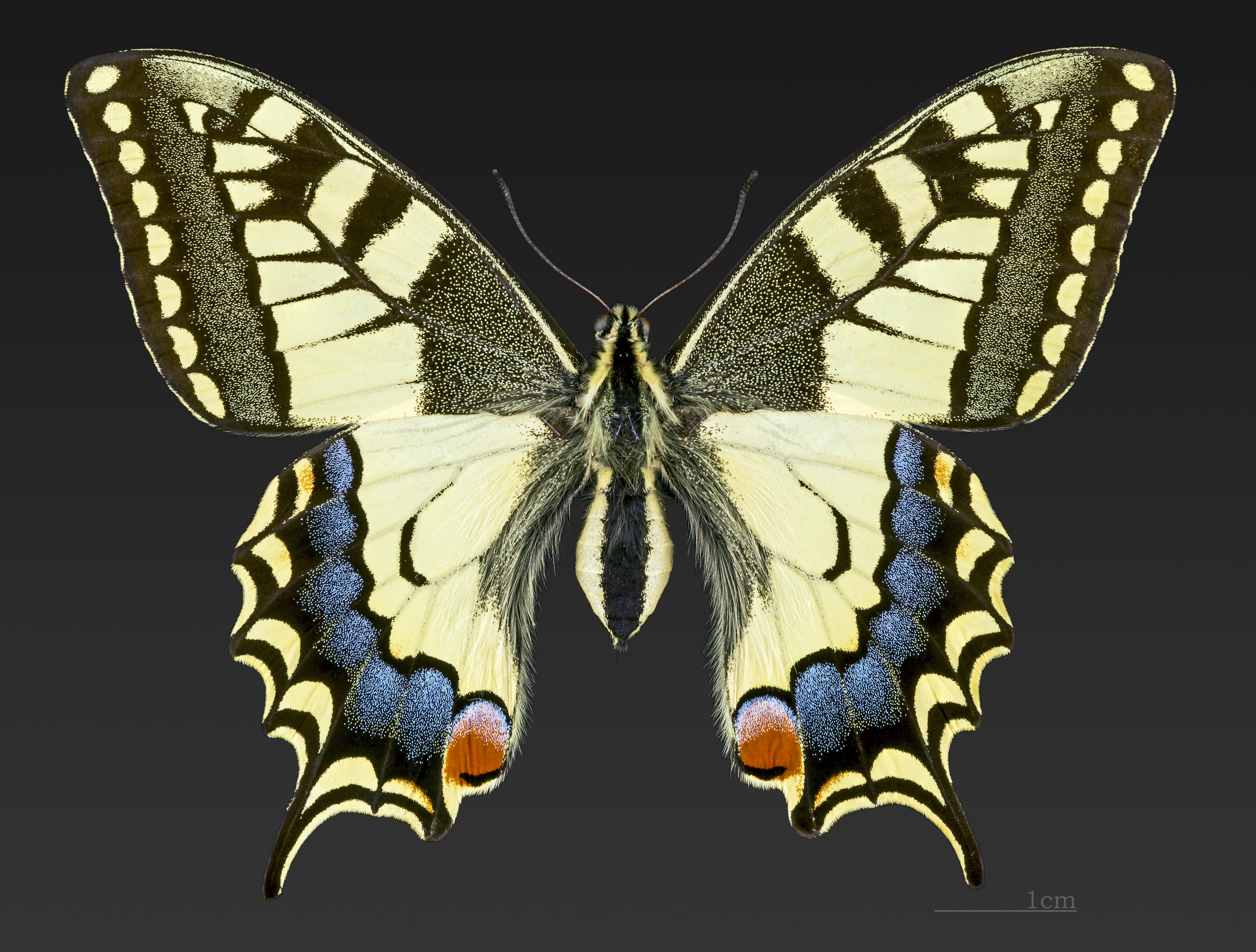 Old World swallowtail - Dorsal side